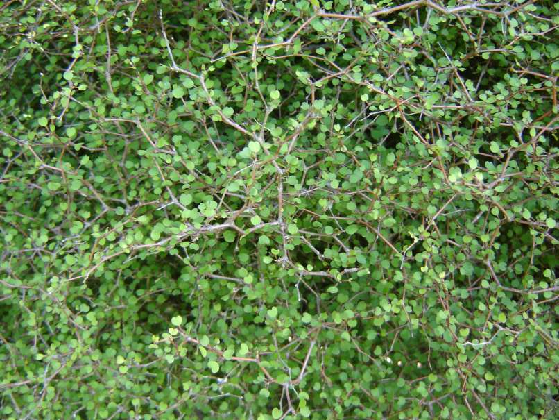 Branches and foliage of Muehlenbeckia astonii at Hackfalls Arboretum, Tiniroto, New Zealand. Shrub is planted 1992 (Hackfalls cat nr. 1992 059)